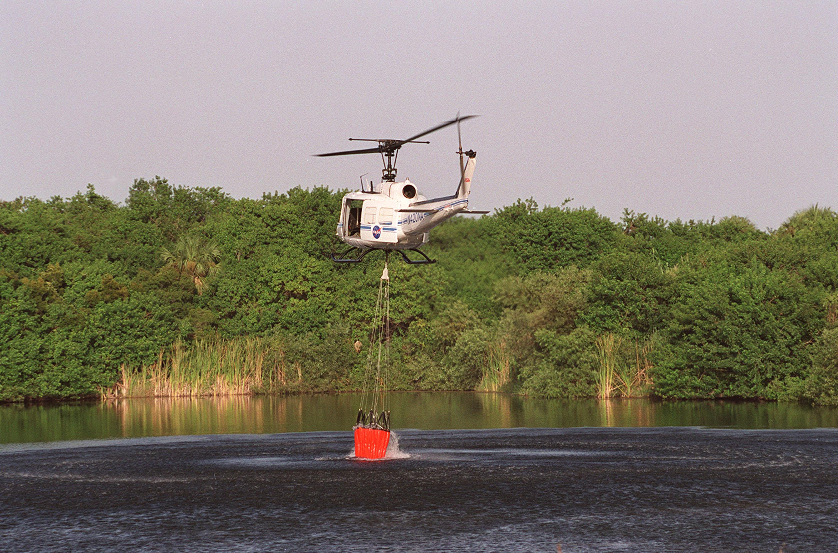 A NASA UH-1H Iroquois helicopter dips its fire-fighting bucket into the river to pick up and deliver a cargo of water to a wildfire at KSC. Before being extinguished, the fire burned about 20 acres at a site near gate 2C on Kennedy Parkway North (route 3). FAA Registration